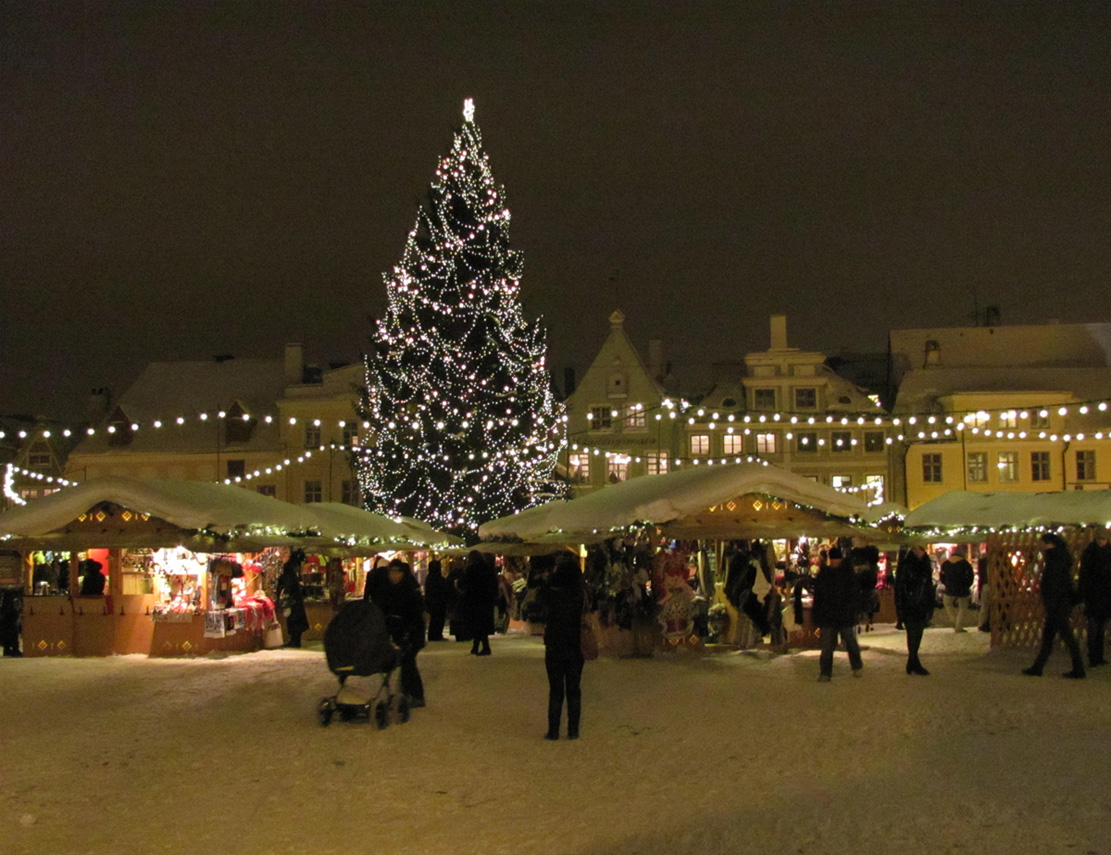 Christmas Market in Tallinn 2010. This photograph was taken with a Canon PowerShot SX120 IS